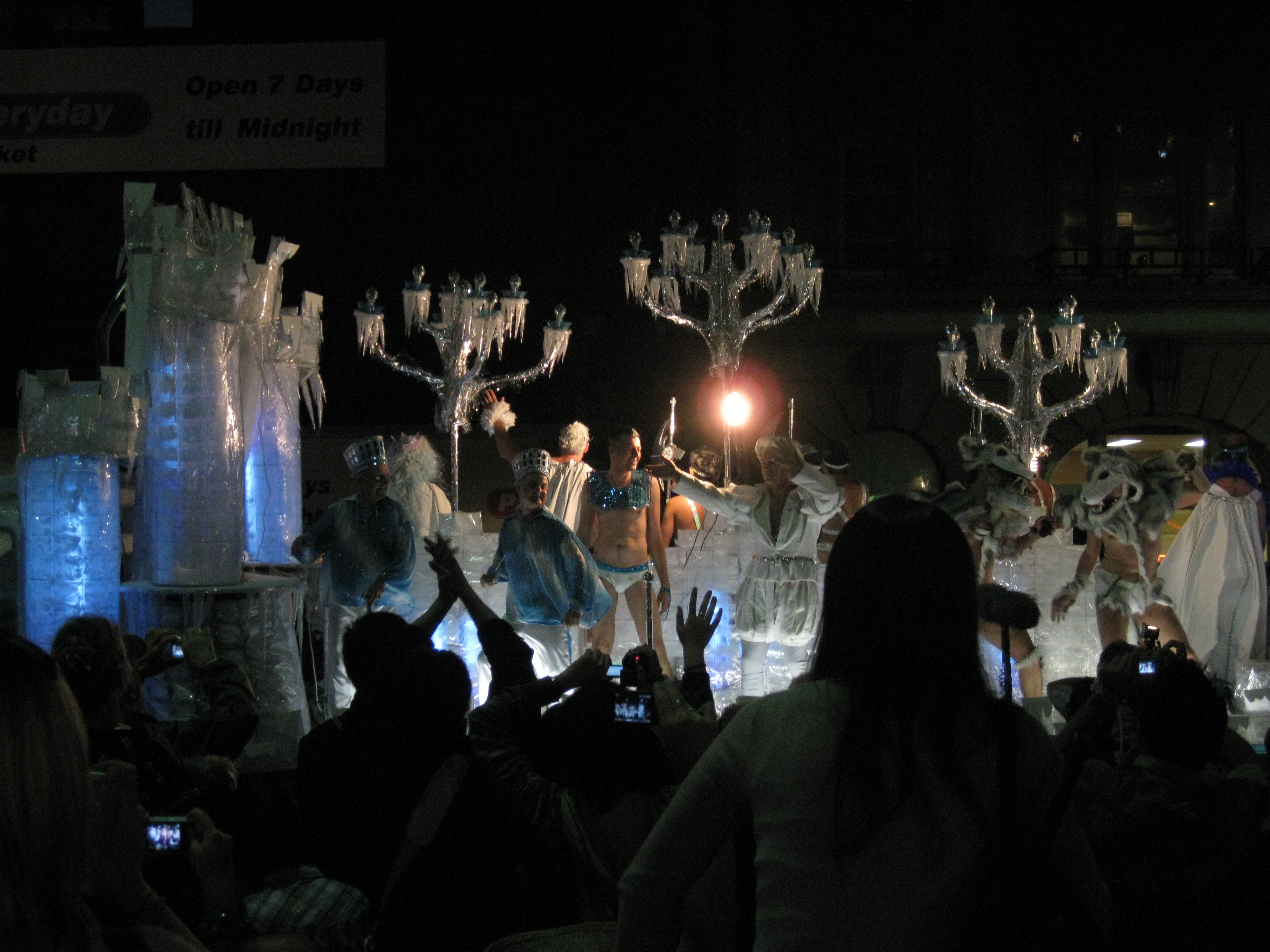 Sydney Mardi Gras